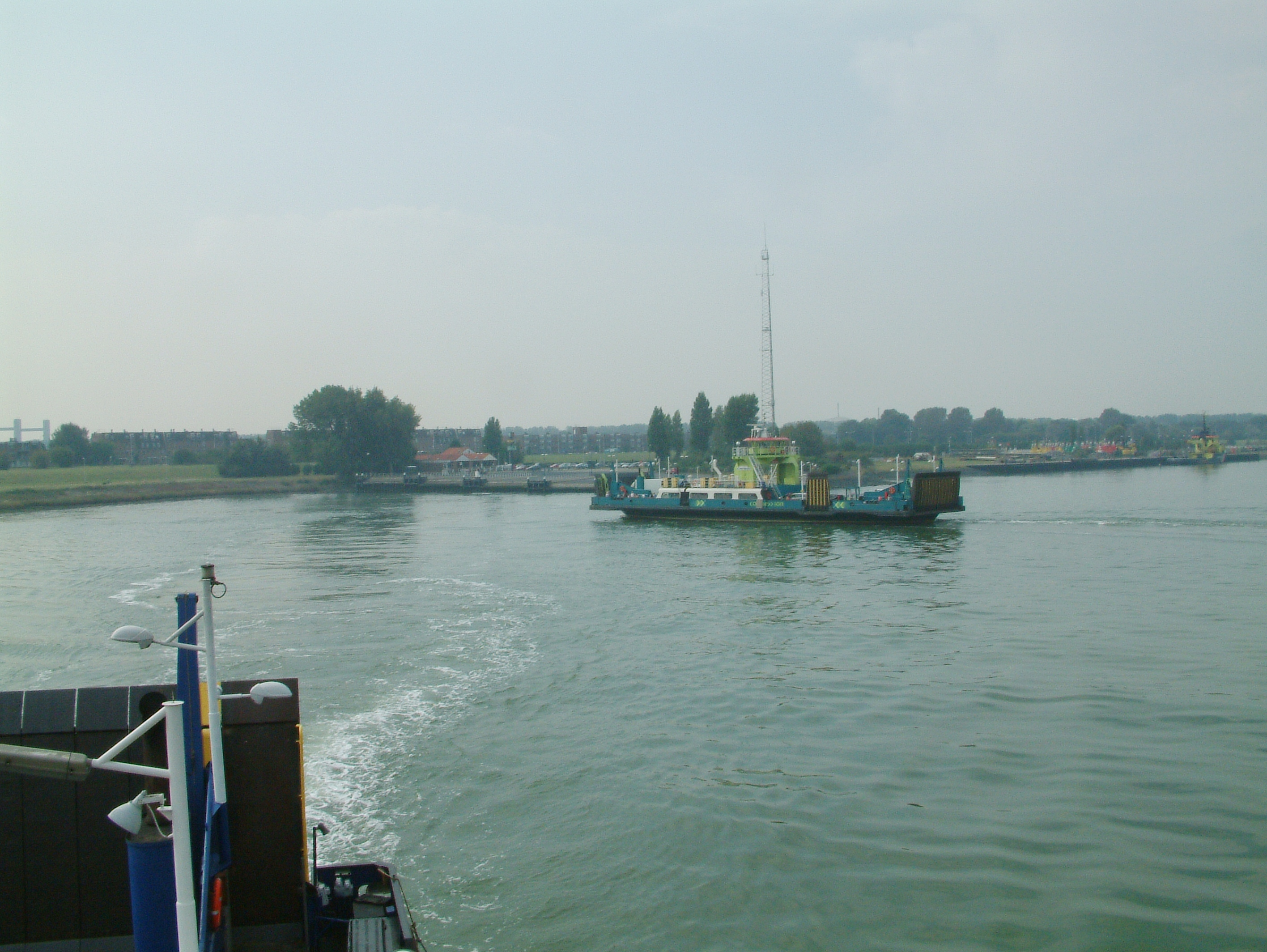 Ferry Blankenburg between Rozenburg and Maassluis